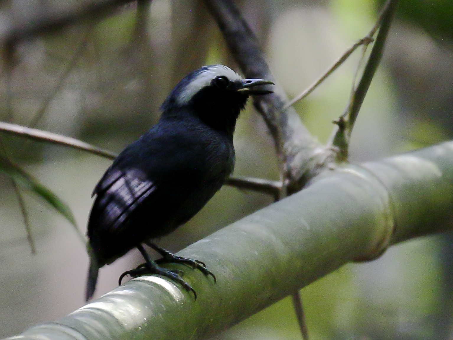 White-browed antbird (male) at Rio Branco, Acre, Brazil